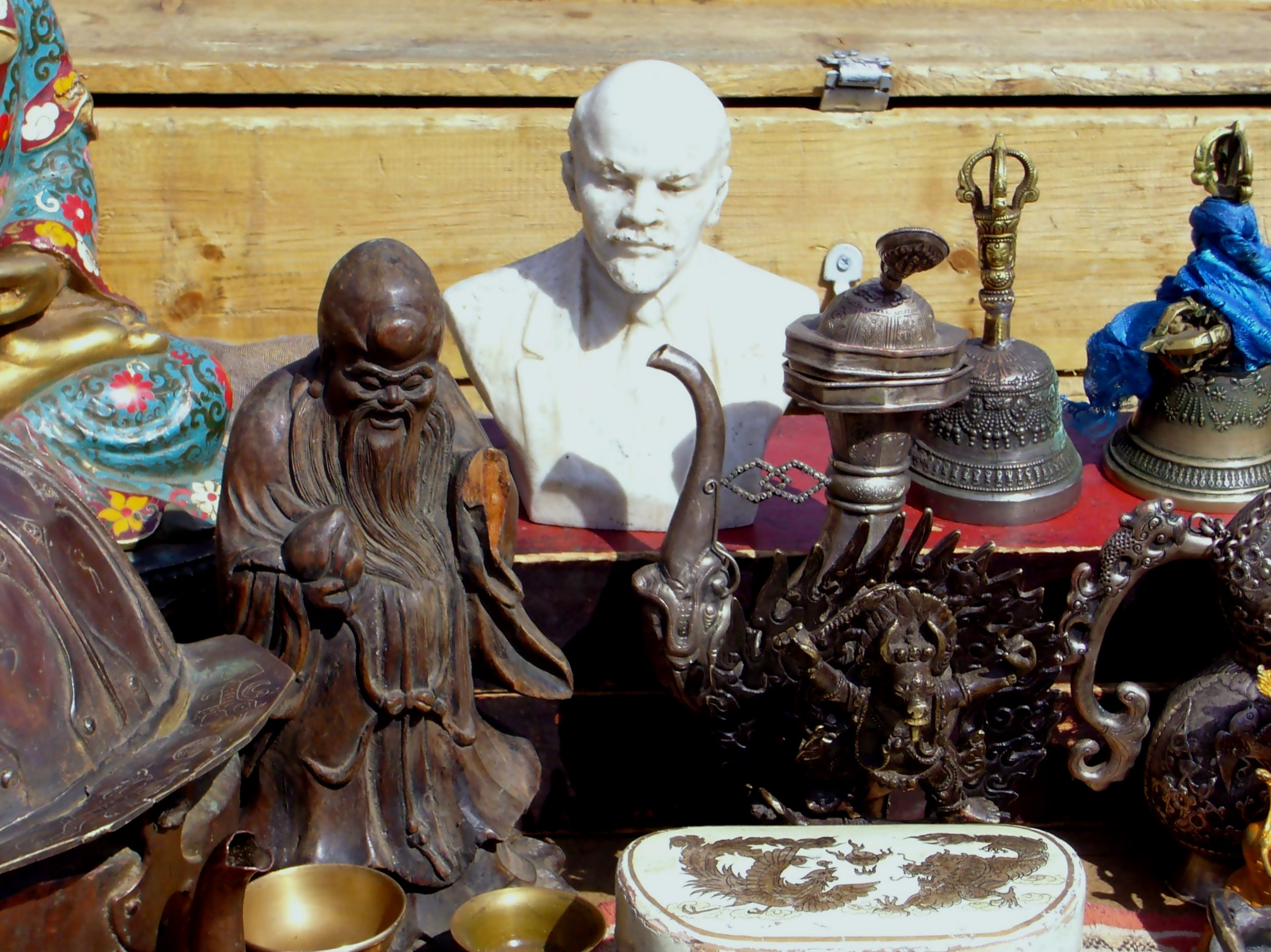 The Narantuul Market in Ulaanbaatar, Mongolia. Colloquially also called Khar Zakh (Black Market), although it has been an official public market for many years.